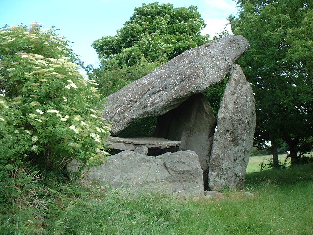 Kilmogue Portal Dolmen. This portal dolmen was built by our neolithic forefathers about 6000 years ago. I grew up close to this place and loved to climb over it and into it as a kid.